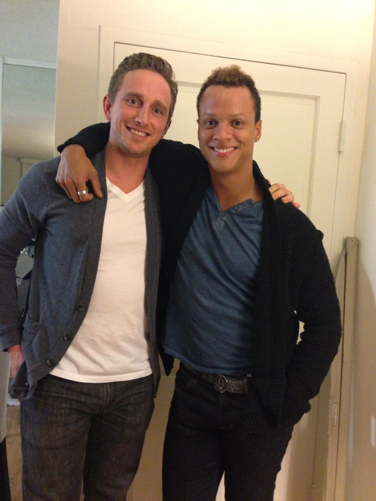 Two mean wearing cardigan sweaters